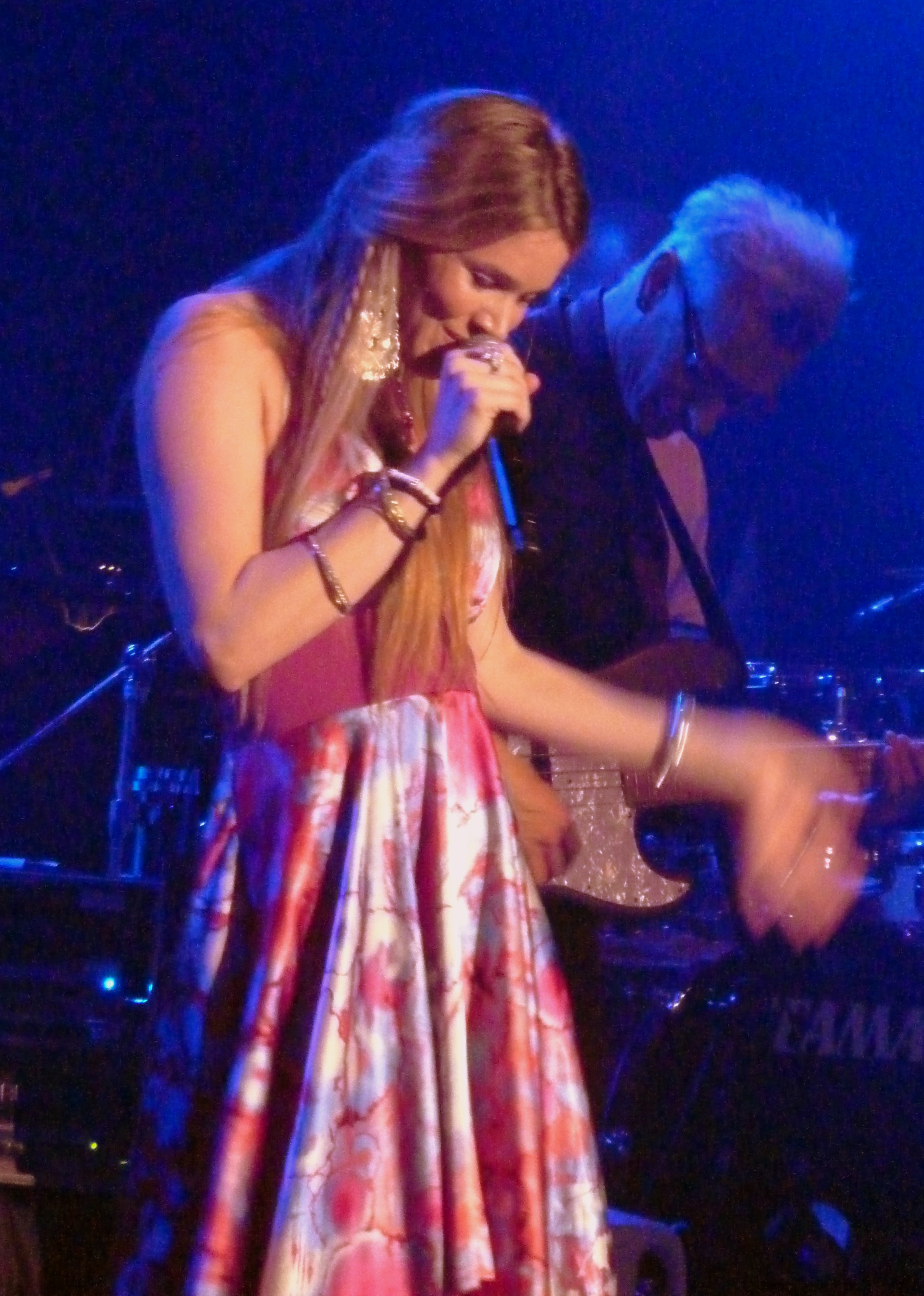 Joss Stone at the Royal Oak Music Theater, Detroit 10/6/12